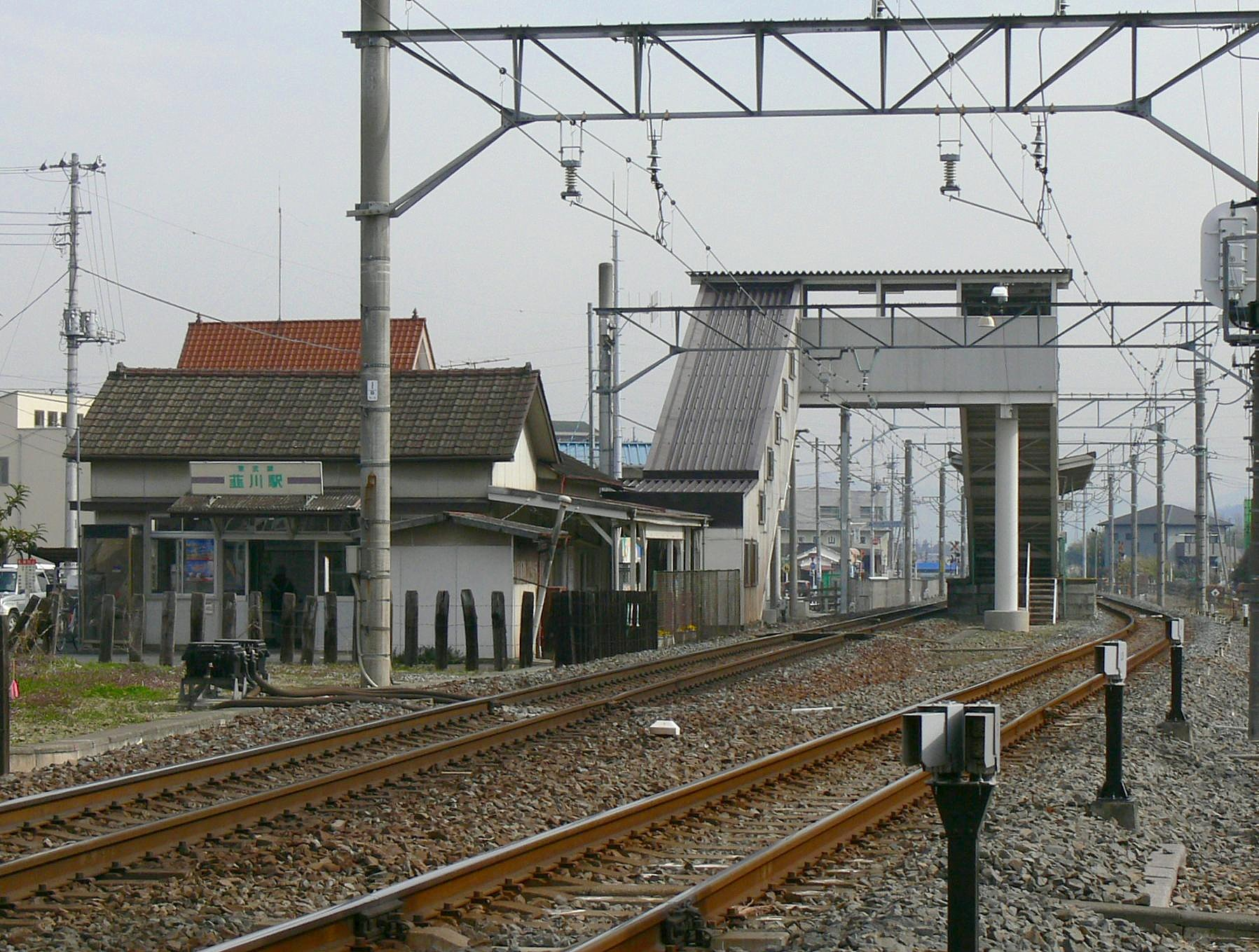 Tobu-Railway Niragawa-station-premises(Japan, Ota-City). It takes a picture of the station premises of Tobu-Isesaki Line Niragawa-Station from the public road. 東武伊勢崎線の韮川駅の駅構内を公道から撮影。